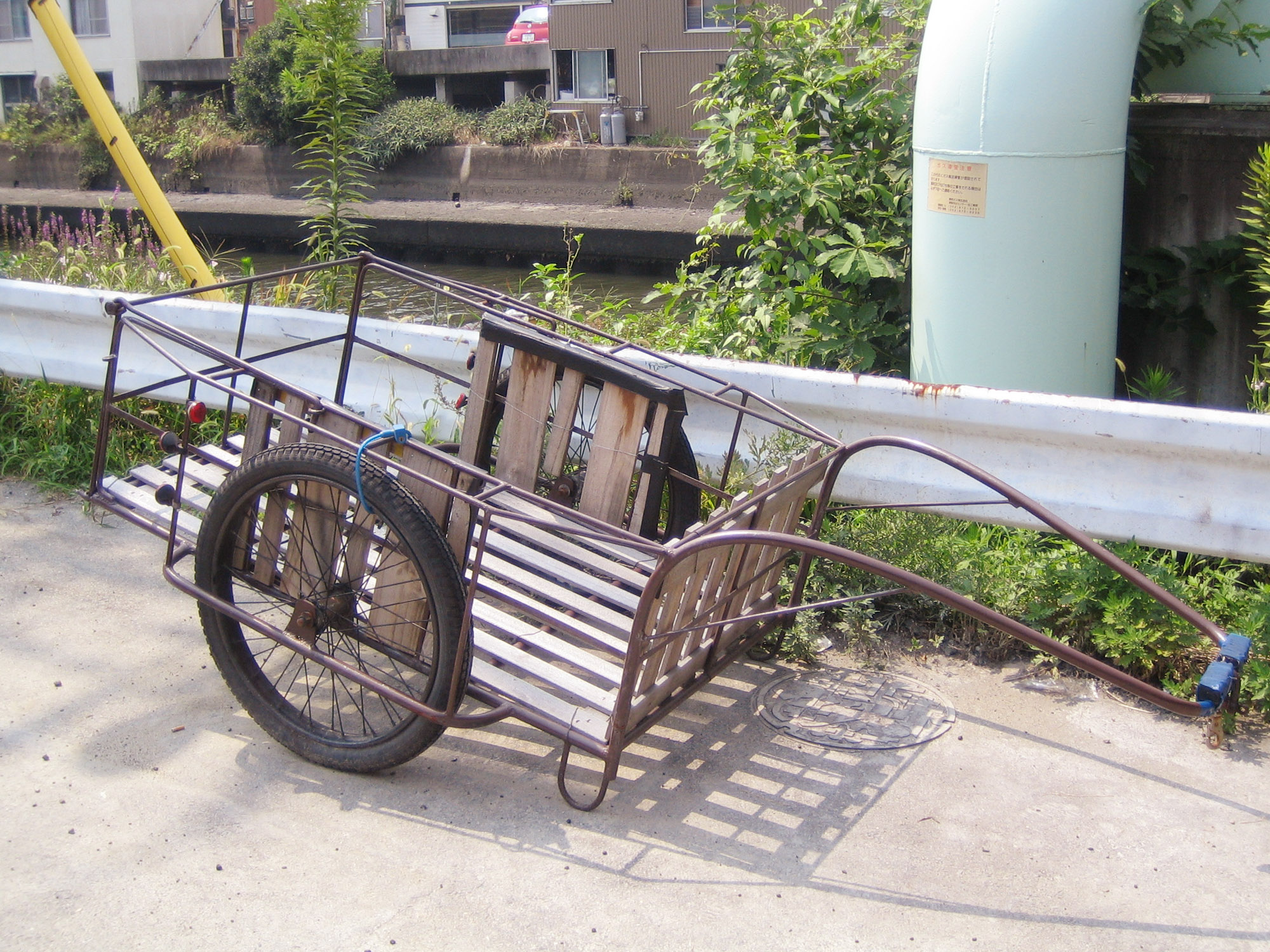 "Rear-Car" (リヤカー)